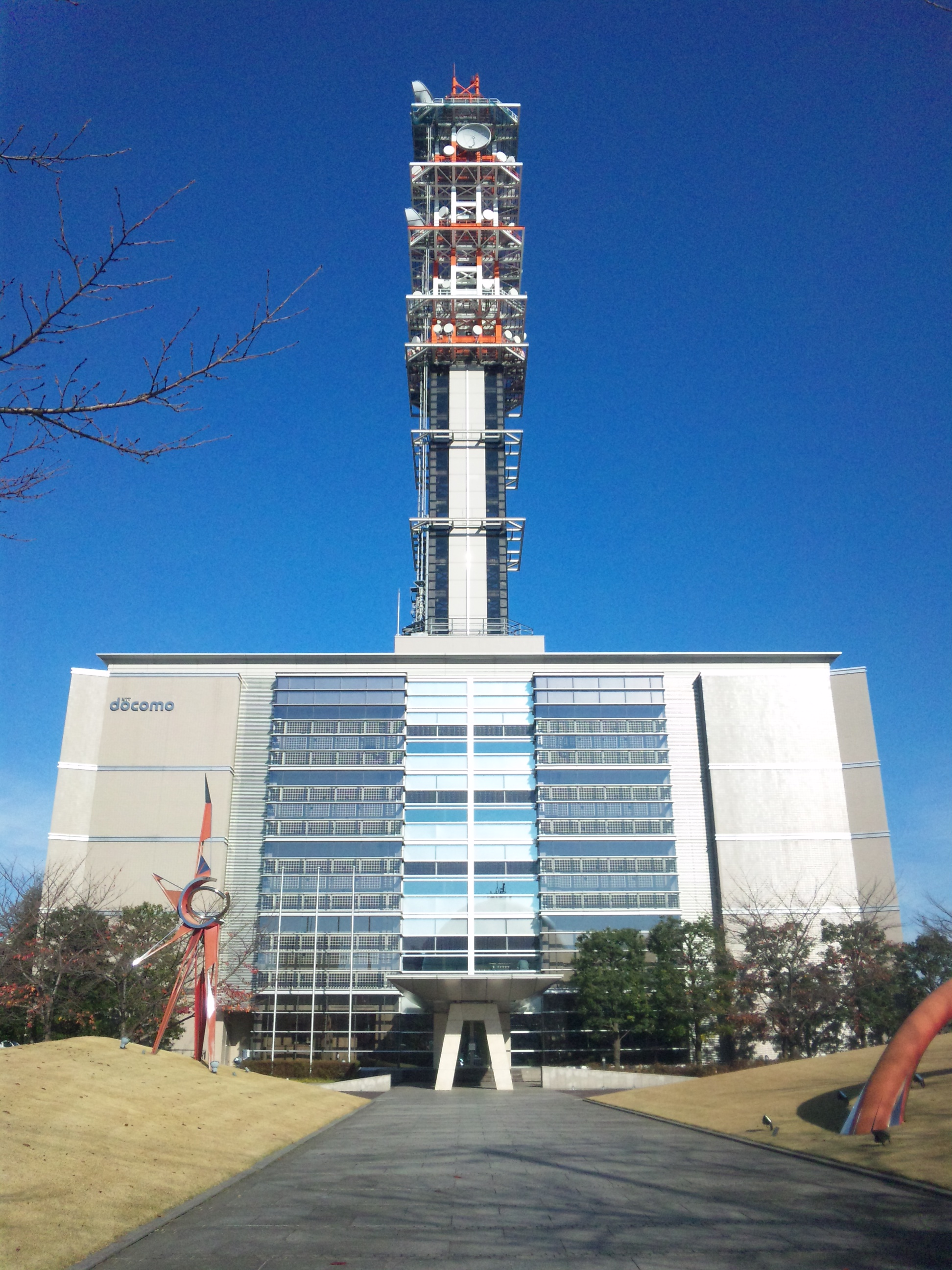 NTT docomo tachikawa Office